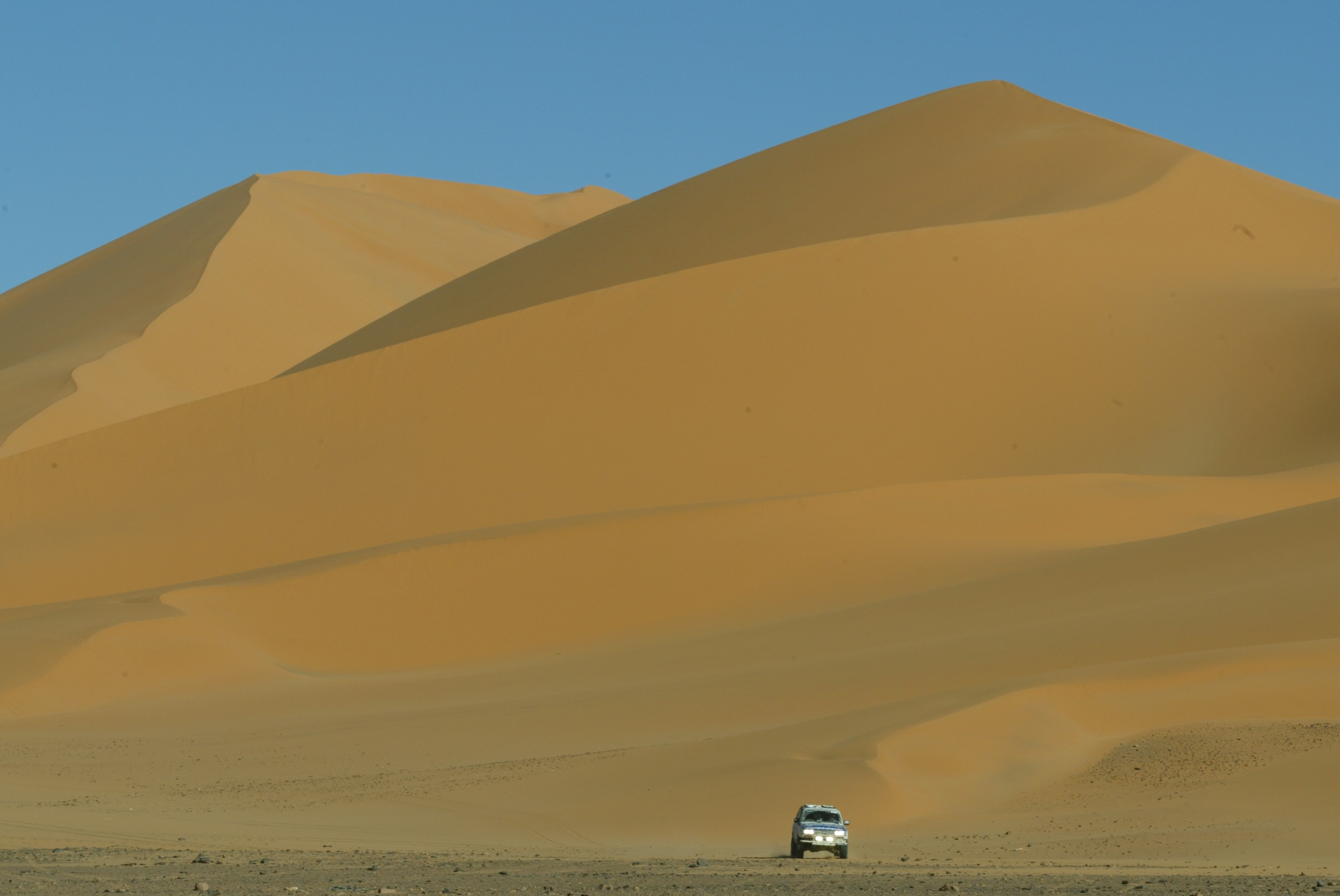 Rally Dakar Argentina-Chile-Argentina